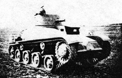 A Landsverk L-120 light tank - the first tank operated by the Norwegian Army.